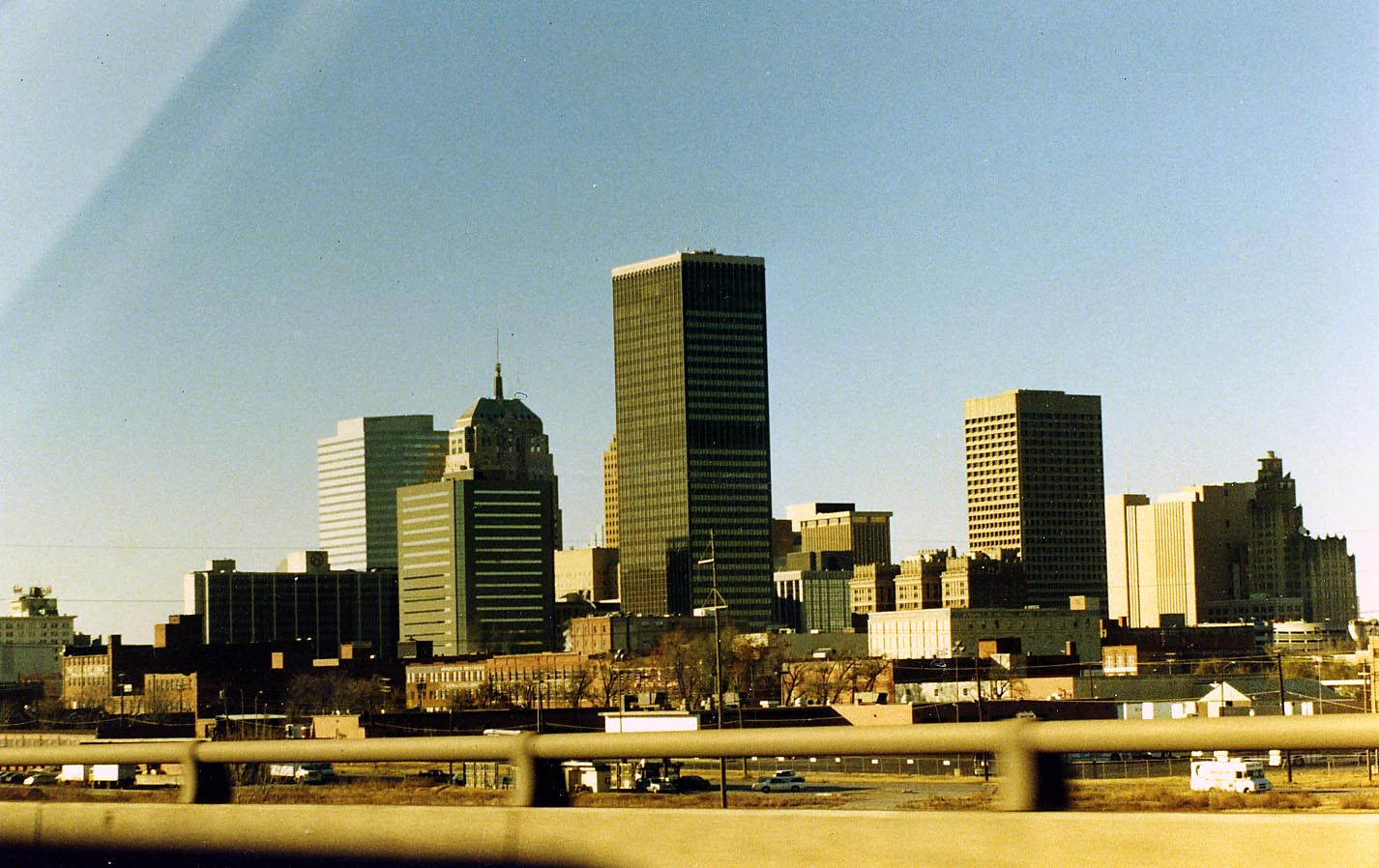 When interstating across the Great Plains the cities appear on the horizon like 'lands uplifted high', you close in on them, and then they are astern and it is back to the rolling monotonous browns